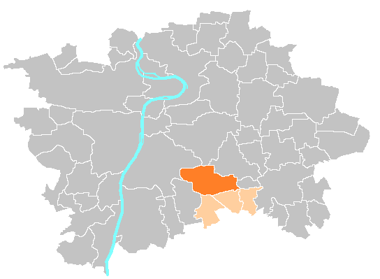 Location map of municipal district and administrative district Prague 11